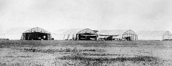 DH4 aircraft at the High River Air Station, High River, Alberta, 1922. The aircraft were used strictly for civil functions including forestry patrols and photography. The aircraft and the hangars had been donated to Canada by England after the First World War.